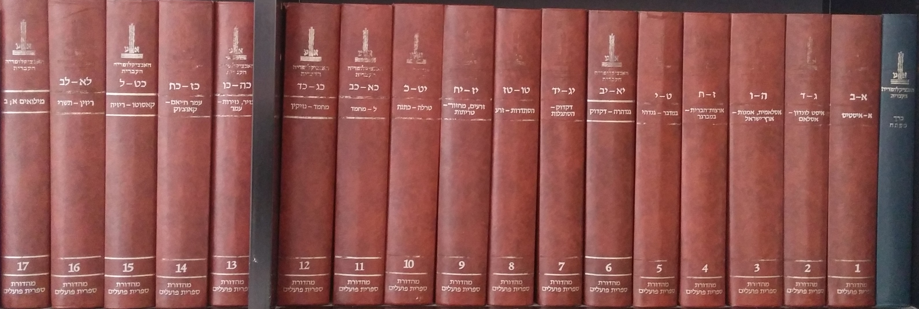 Encyclopaedia Hebraica - Sifriyat Poalim edition